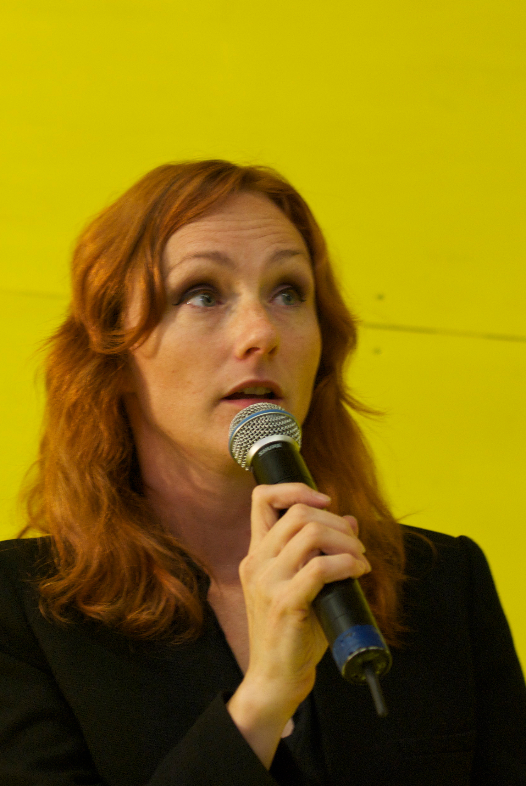 Ika Johannesson at Göteborg Book Fair 2011.